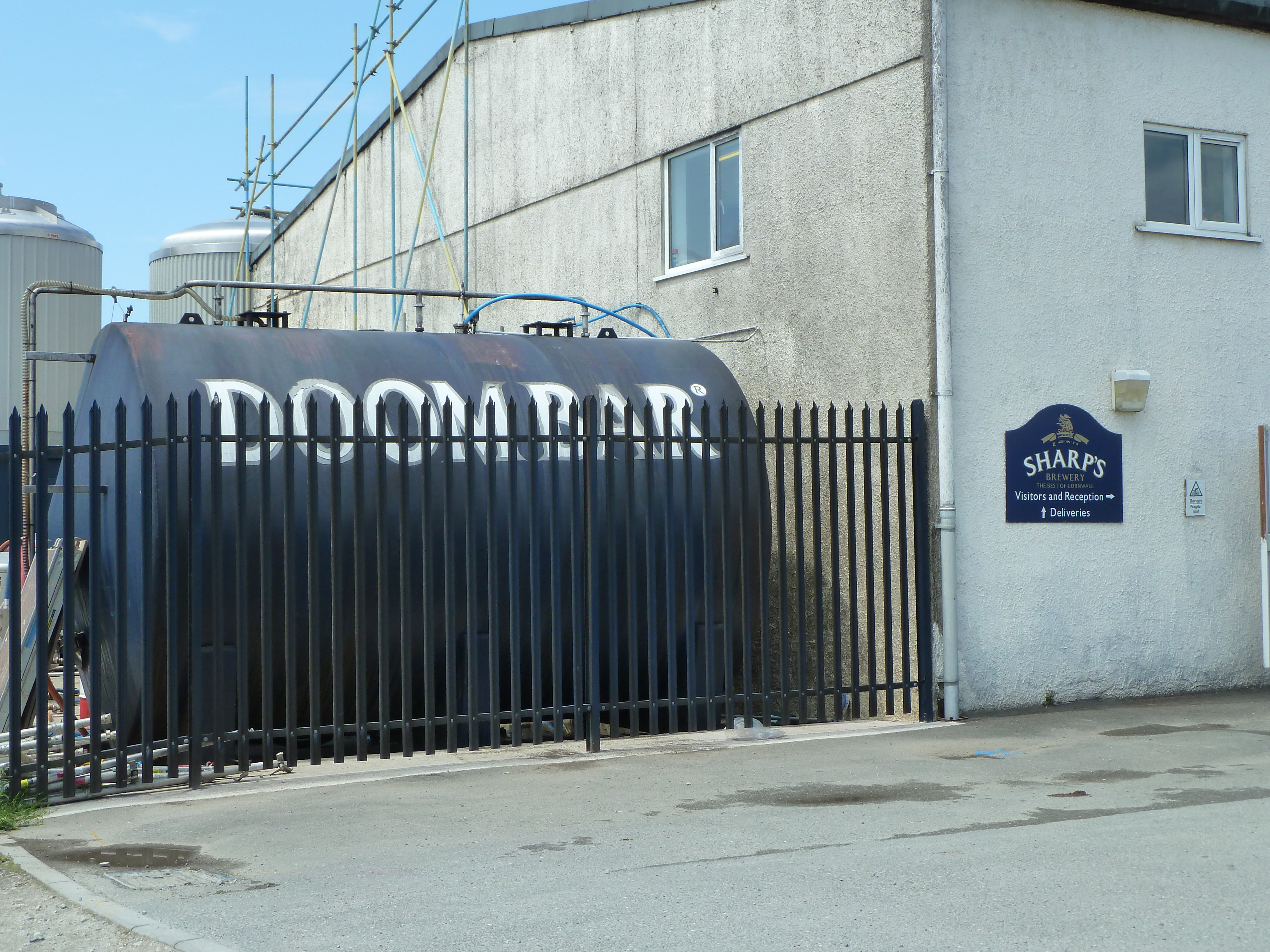 Picture of the Sharps brewery, focusing on the Doom Bar tank